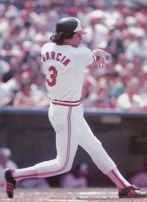 Professional baseball player Kiko Garcia